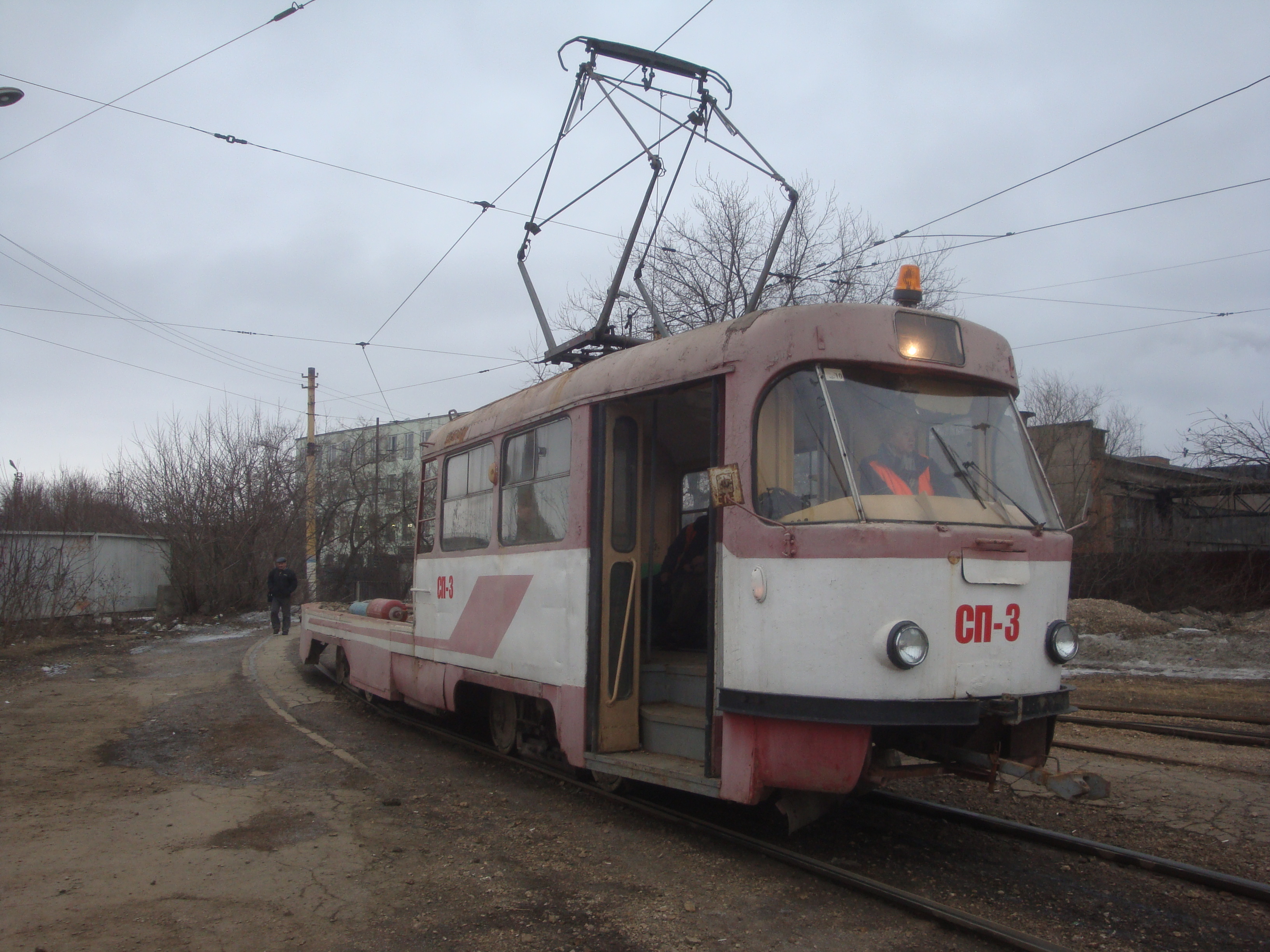 Freight tram in Tula, Russia.